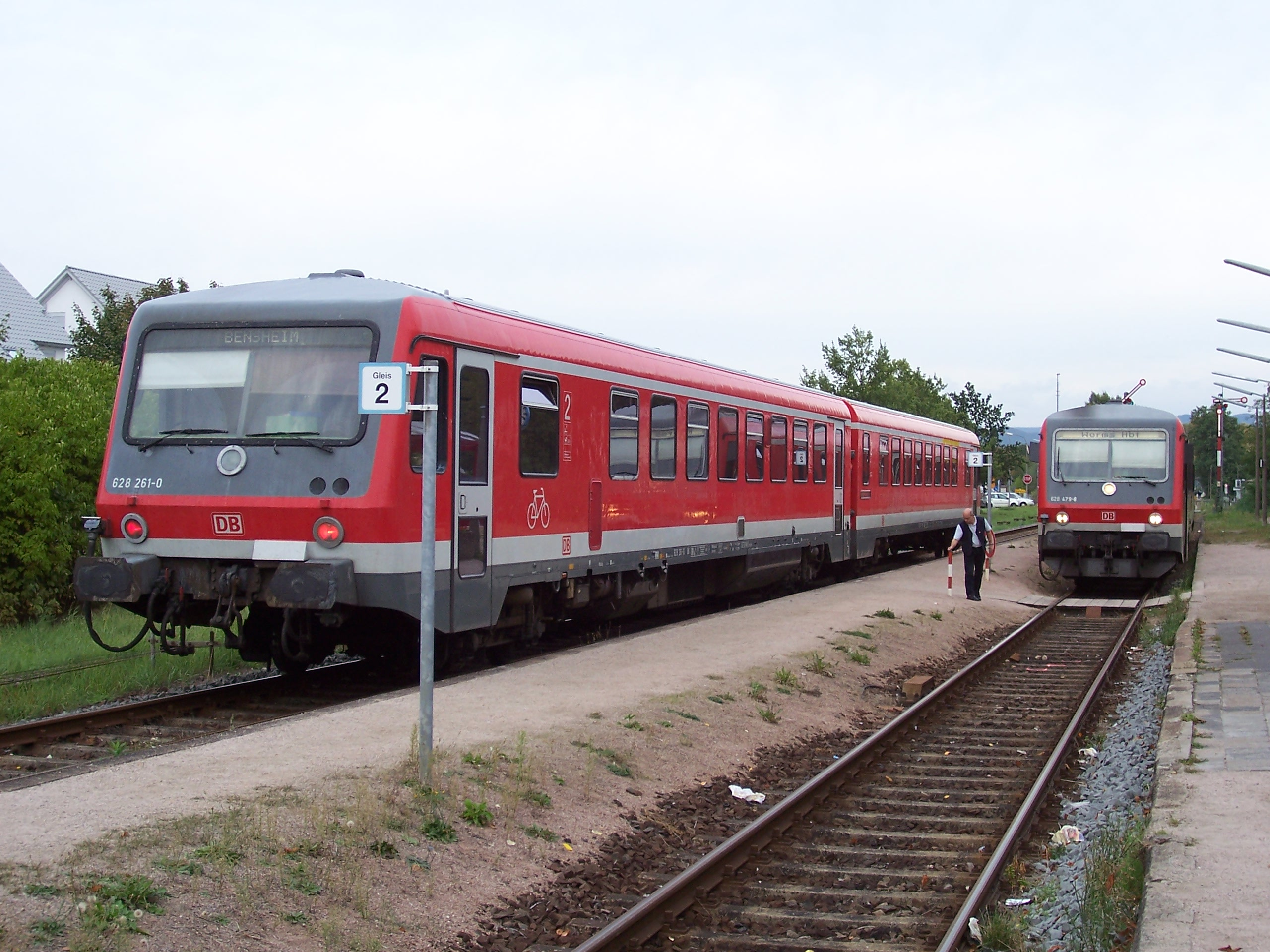 German class 628 in Lorsch, germany.